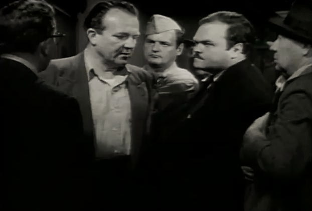 Hugh Sanders (second from left) in The Wild One - trailer (cropped screenshot)